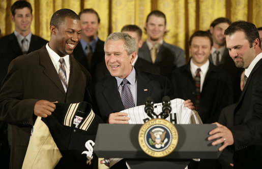 Members of the Chicago White Sox baseball team meeting with U.S. President George W. Bush. Jermaine Dye (left) and Paul Konerko (right) are presenting the President with a jersey.